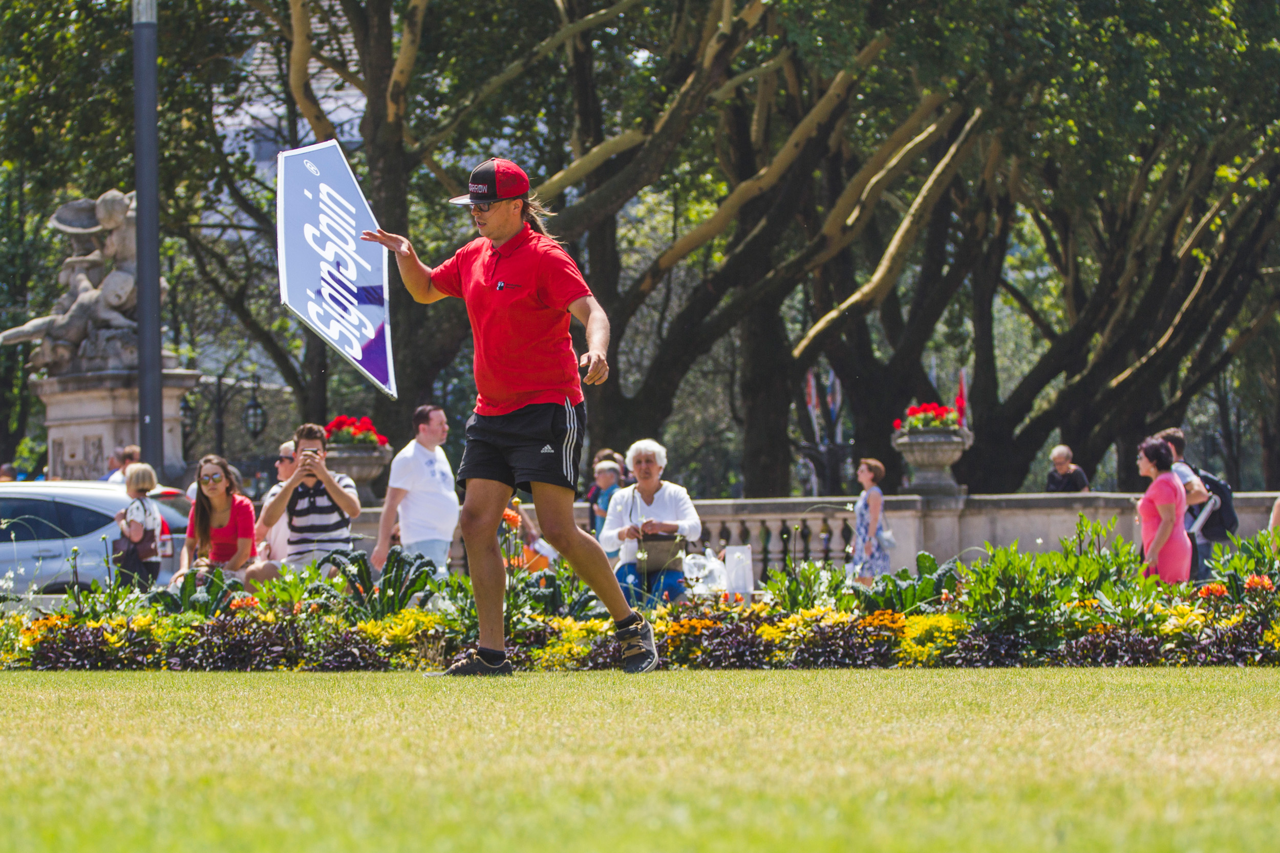 A sign spinner doing tricks in Düsseldorf, germany